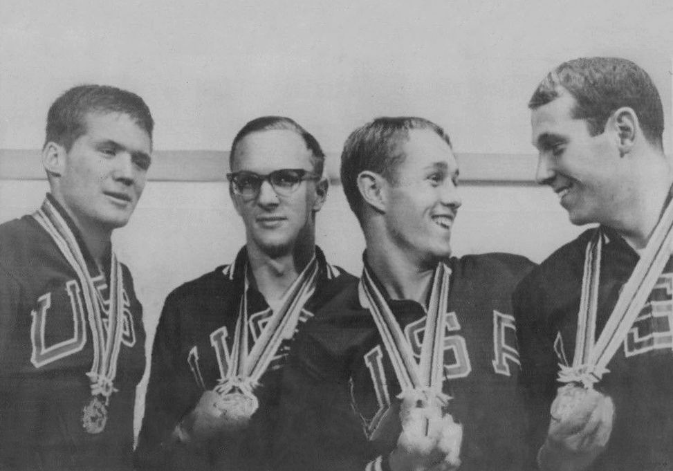 LG18 1964 Wire Photo CLARK SCHMIDT CRAIG MANN US Swimmers OLYMPIC GOLD Medal